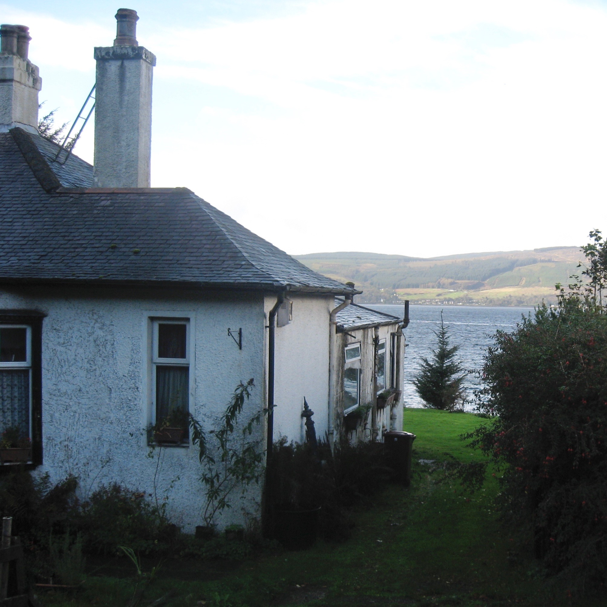 Seacroft, Inverkip, is one of a small group of properties adjacent to the A78 road around 500 metres to the southwest of the village of Inverkip, sharing the postcode PA16 0EA. It is the southmost of three houses between the road and the Firth of Clyde, there is also one house on the landward side to the road. This view shows the north end of the house as it was in 2011, and the view over the Firth of Clyde to the Cowal peninsula Seacroft was the home of Avril Jones and Edward Cairney, who in 2019 were convicted of murdering Margaret Fleming, for whom they were nominated carers, between December 1999 and January 2000. They concealed her death, and Jones continued to claim benefits due to Fleming, until it was discovered in 2016 that Fleming was missing.[1][2]